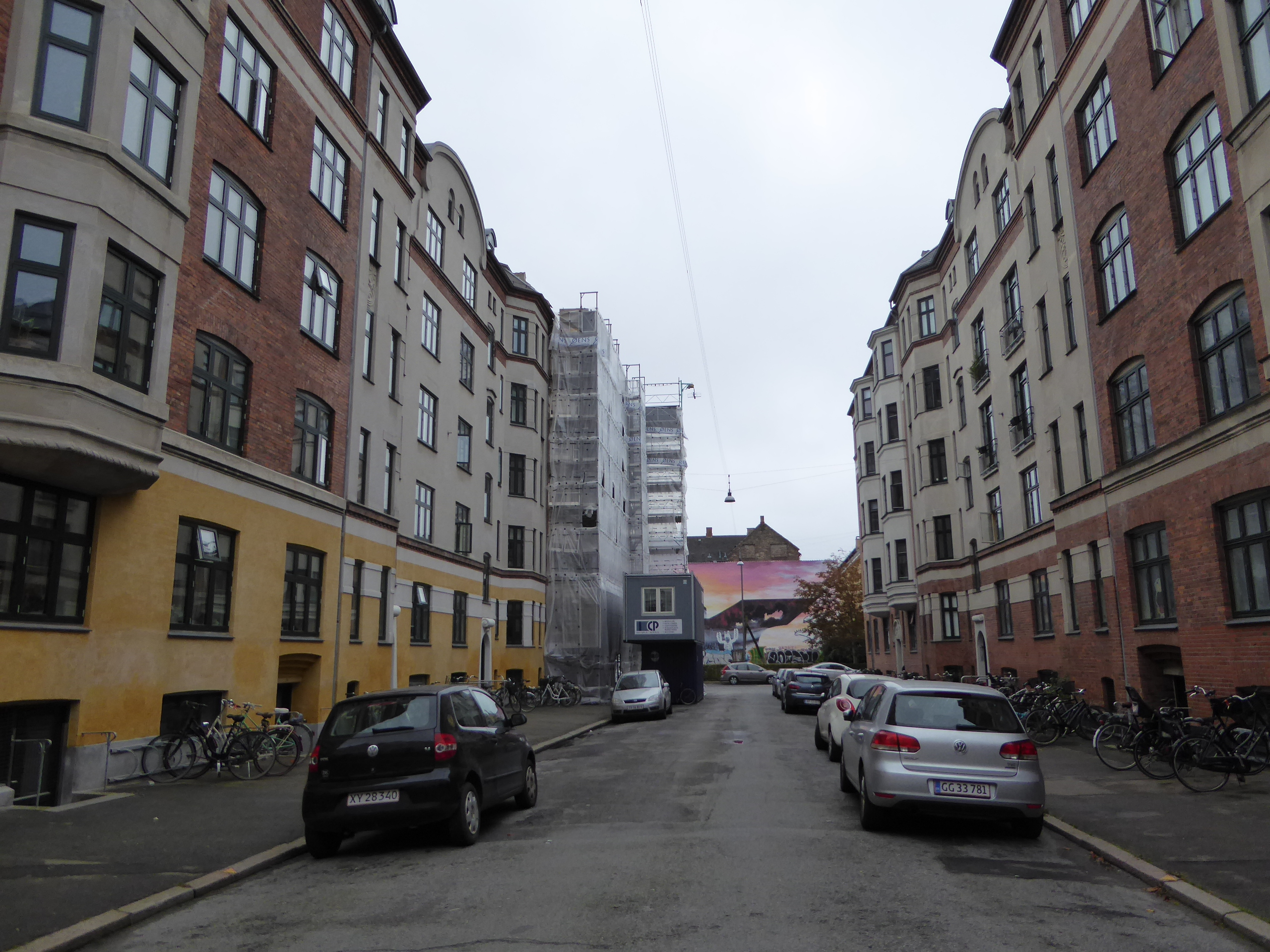 The street Odins Tværgade in Nørrebro in Copenhagen.